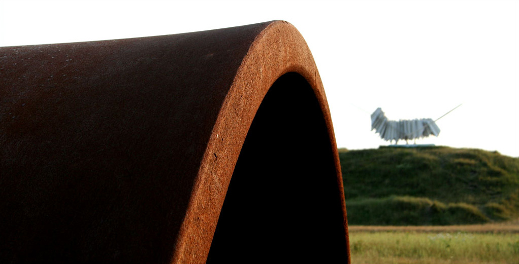 Sculpturepark Een Zee van Staal with sculpture by Robert Erskine in the distance. Location: Wijk aan Zee/The Netherlands